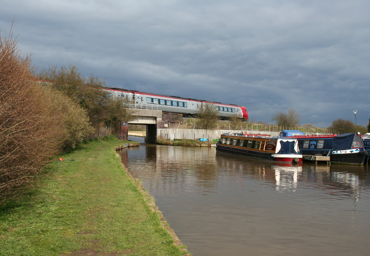 Railway bridge over Shropshire Union Canal, Cholmondeston, Cheshire